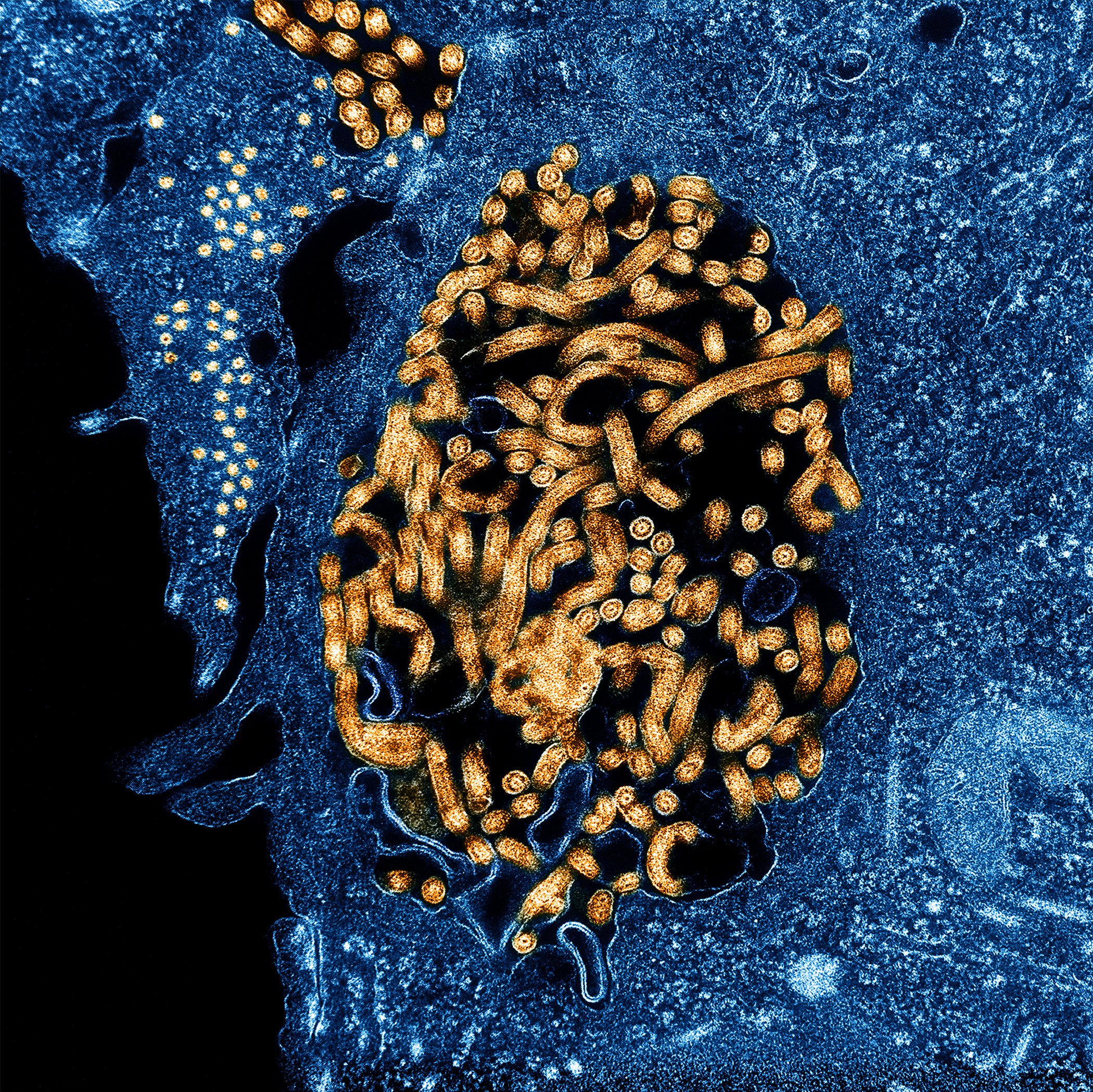 Colorized transmission electron micrograph of Ebola virus nucleocapsids (small orange circles) and virus particles (larger orange filamentous forms) within infected African green monkey kidney cells.